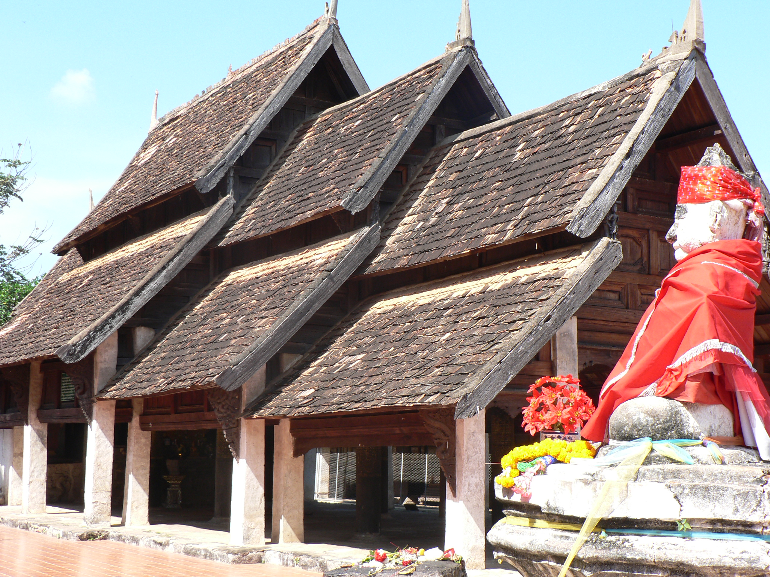 Wat Phrathat Lampang Luang, Lampang, Thailand